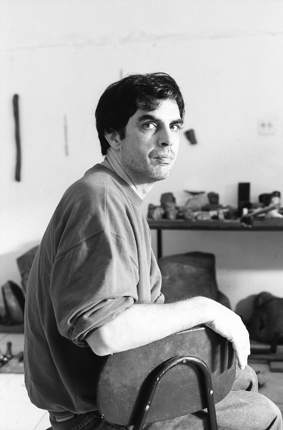 Artista Brasileiro